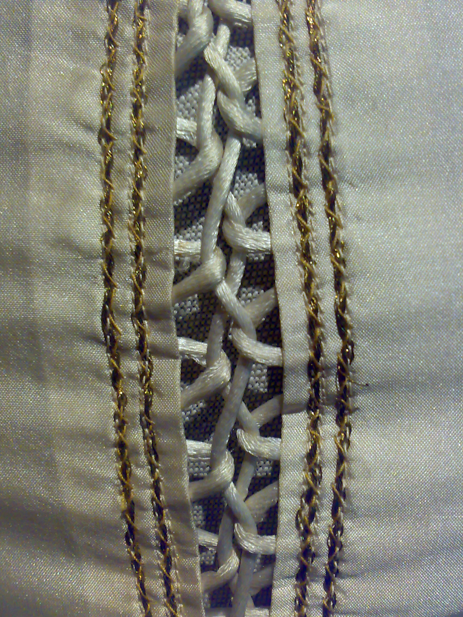 Detail of a medieval suit reproduced by the Fondation Cerratelli - Italy